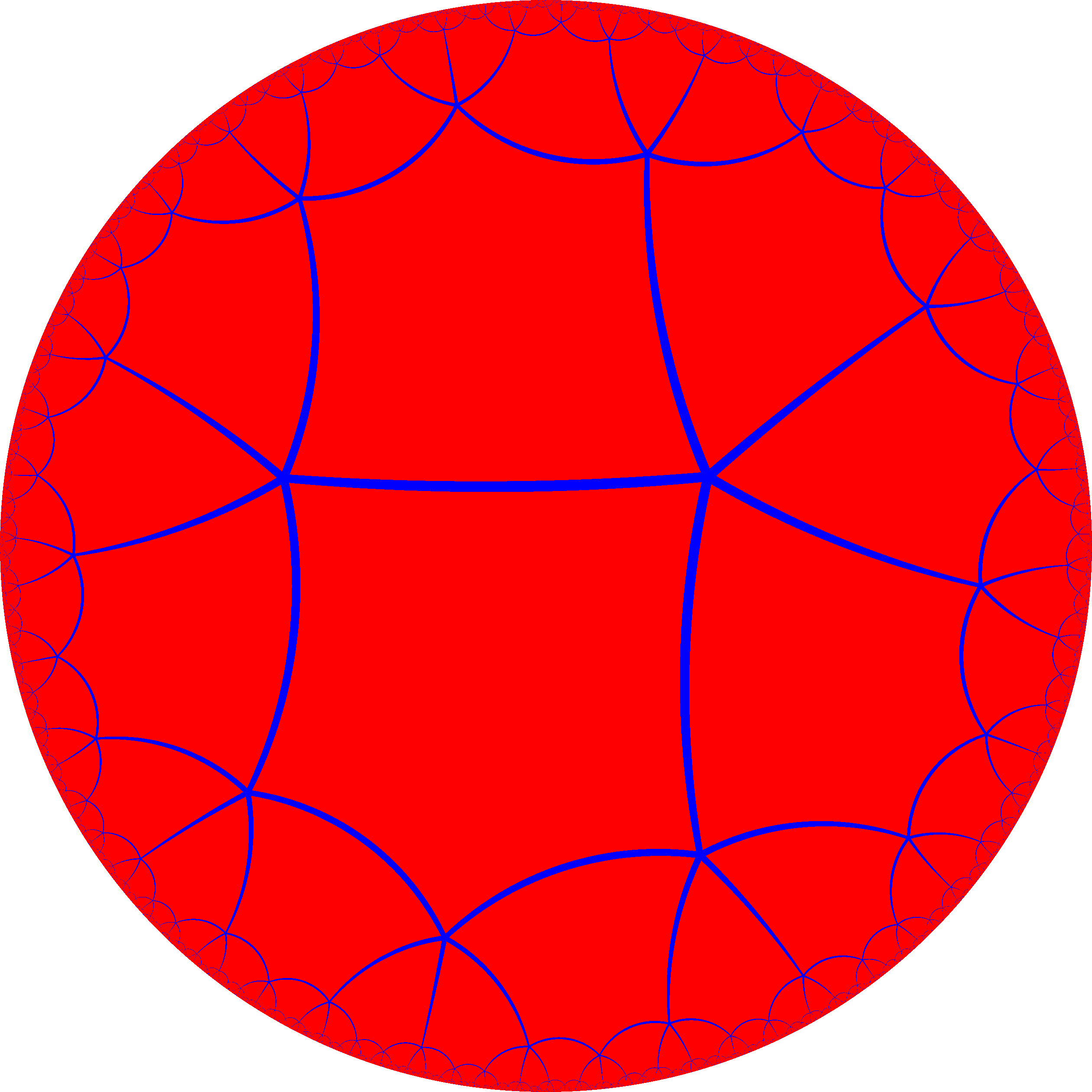 Self-dual regular tiling of hyperbolic plane, o5o5x. Generated by Python code at User:Tamfang/programs. Equivalent